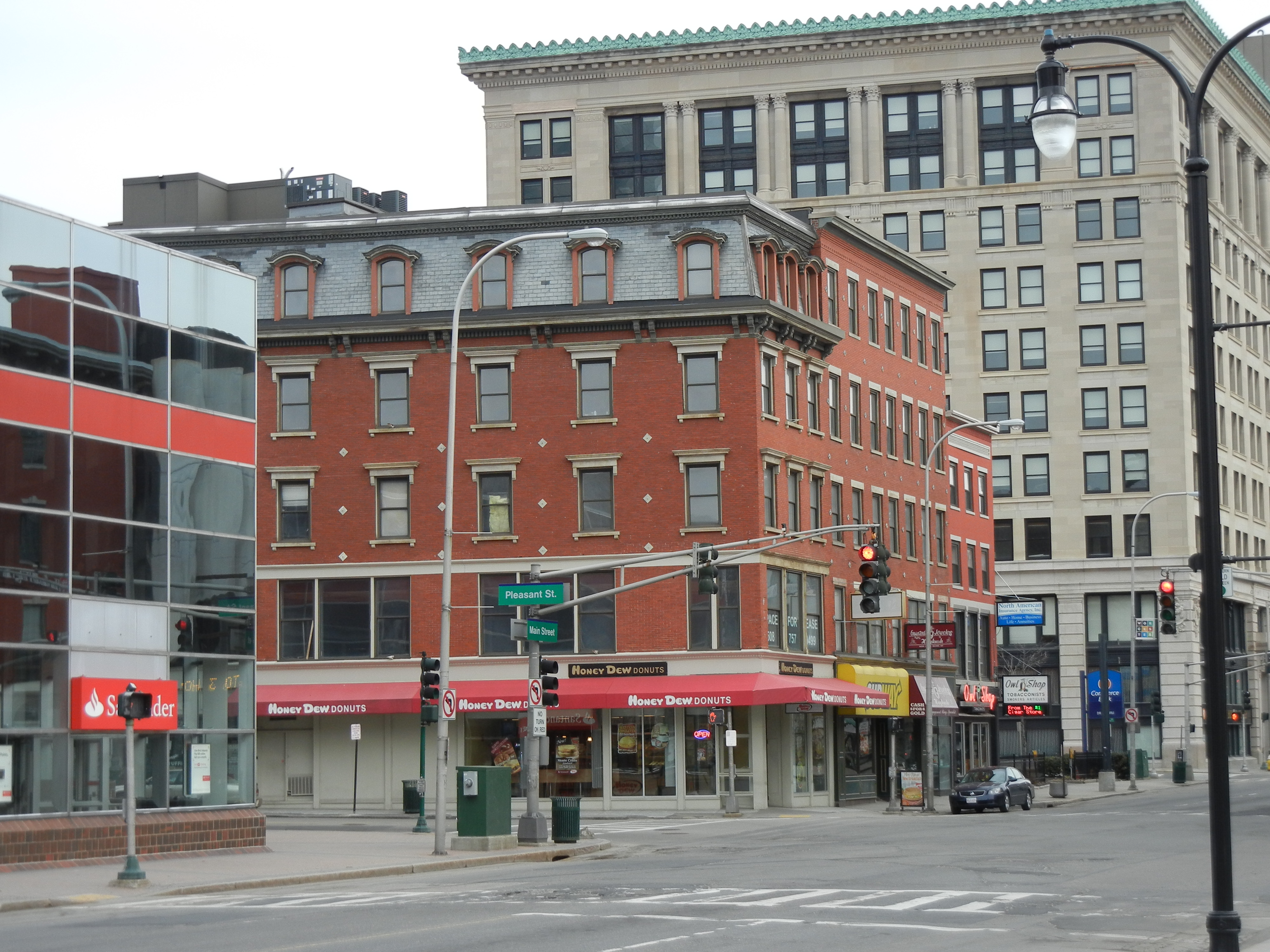 Harrington Corner (Main and Pleasant Streets) in Worcester, Massachusetts (USA)